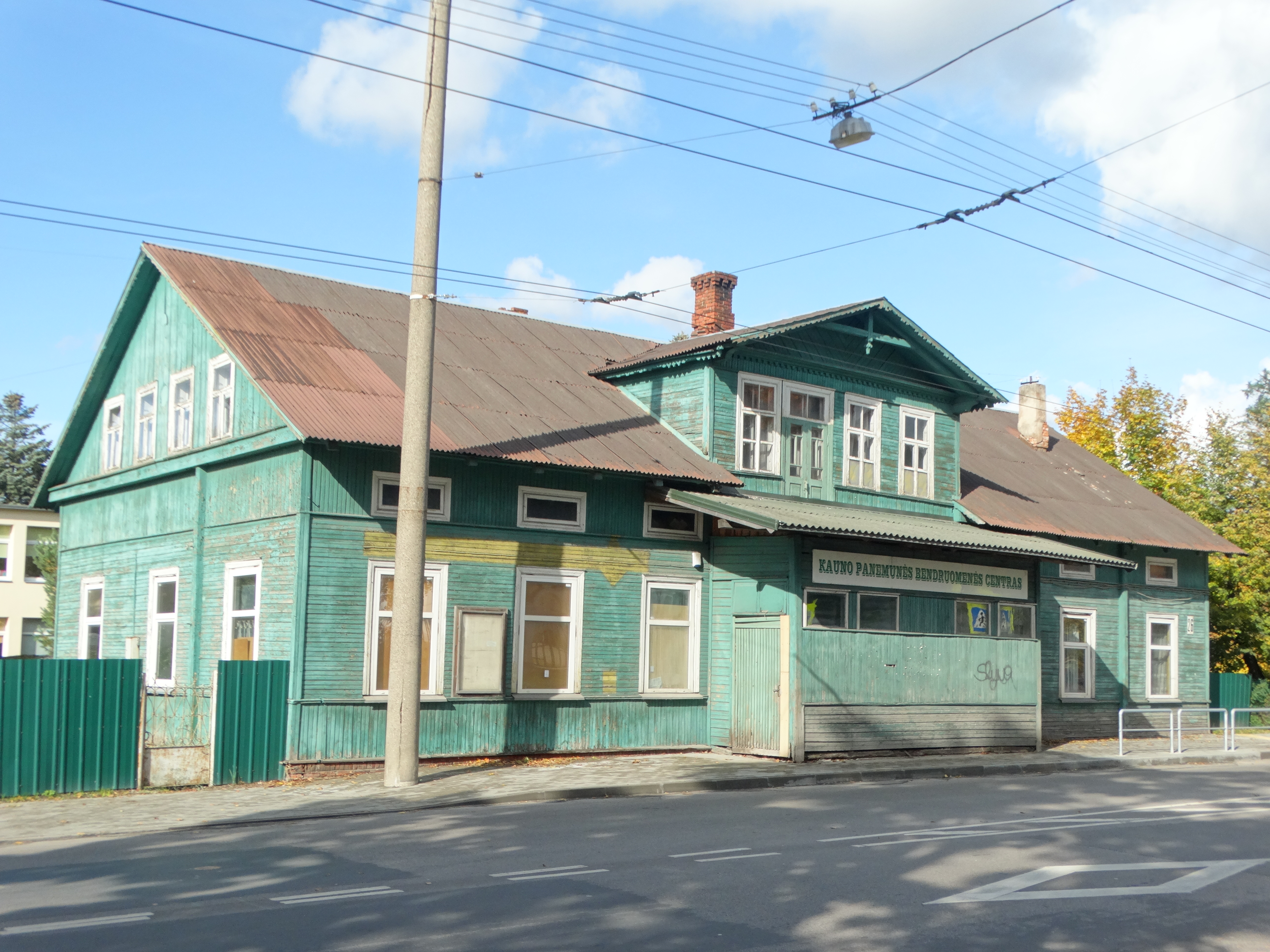 Former comunity house, Panemunė (Kaunas), Lithuania